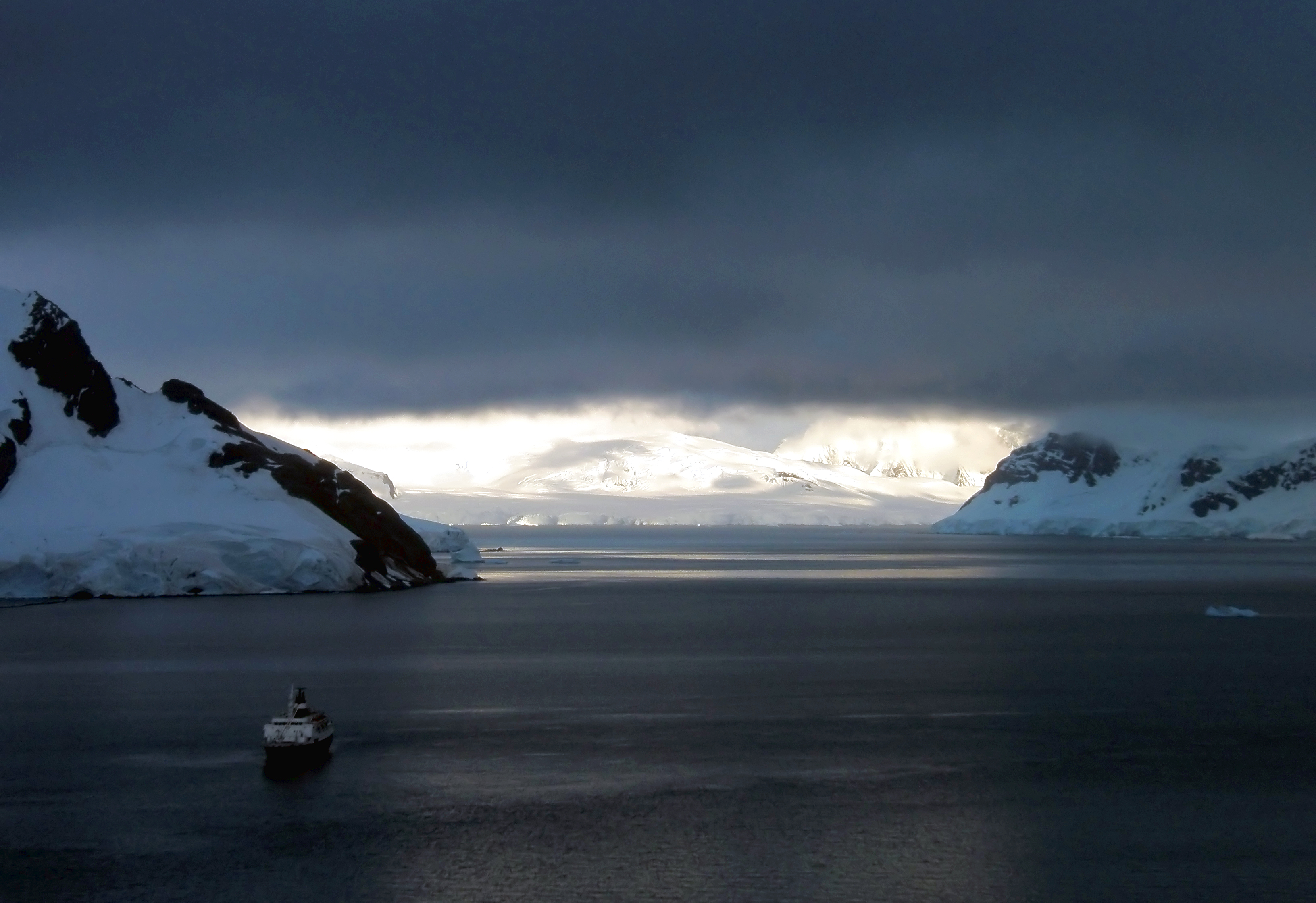 6:08 AM, M/V (Motor Vessel) Lyubov Orlova sitting in Paradise Bay, Antarctic Penninsula.